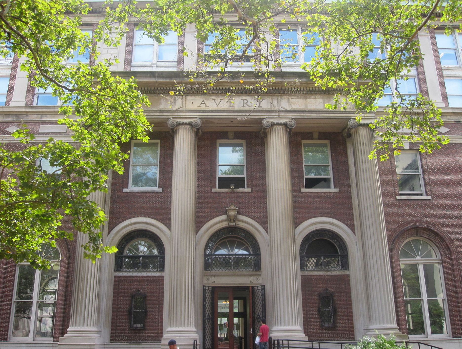 Avery Building on Columbia University, NYC